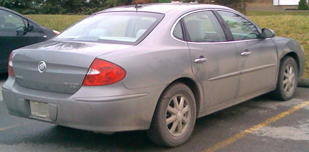 2005 Buick Allure photographed in Montreal, Quebec, Canada.